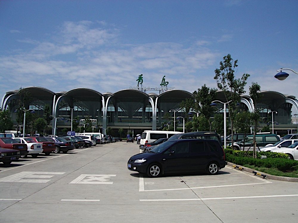 Qingdao Liuting International Airport